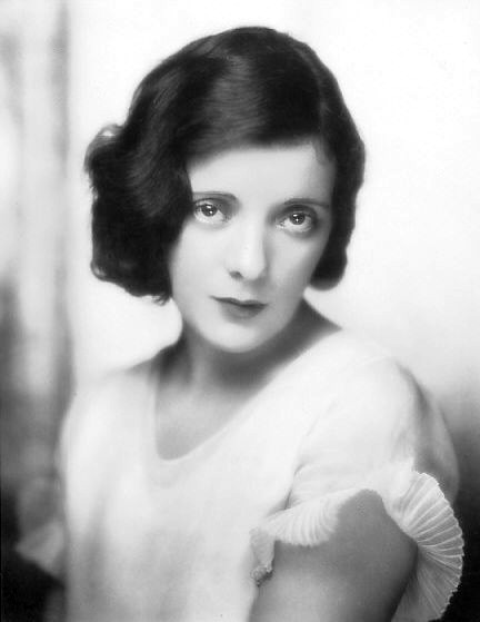 Portrait of American actress Alma Rubens (1897–1931) by Albert Witzel (Witzel Studios, LA)